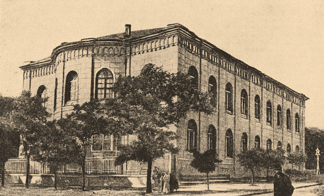 Illustration from Brockhaus and Efron Jewish Encyclopedia (1906—1913)